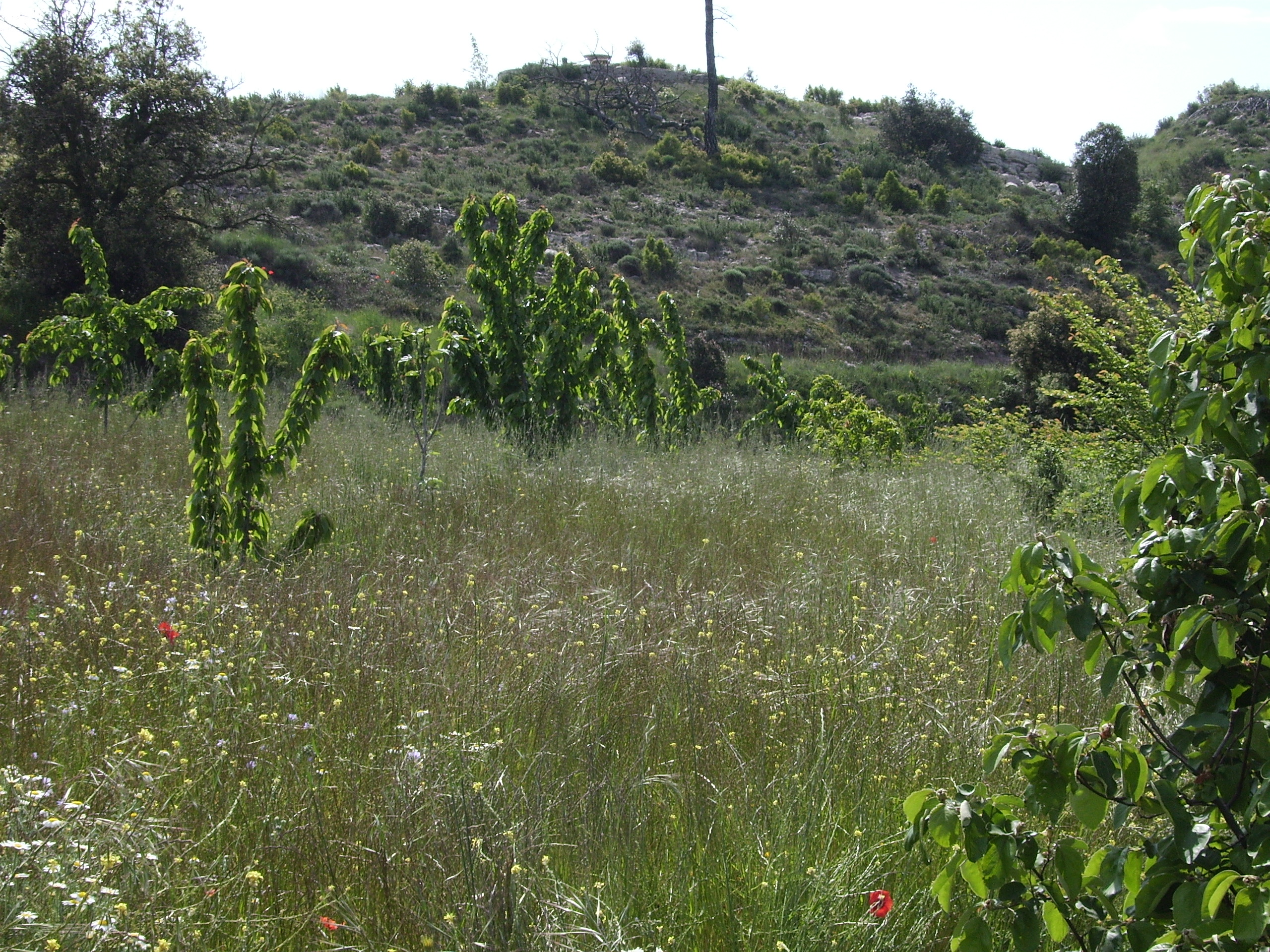 Image:Cirerers Prunus avium .jpg Self. Rainfeed Cherry trees in Castelltallat, Catalonia